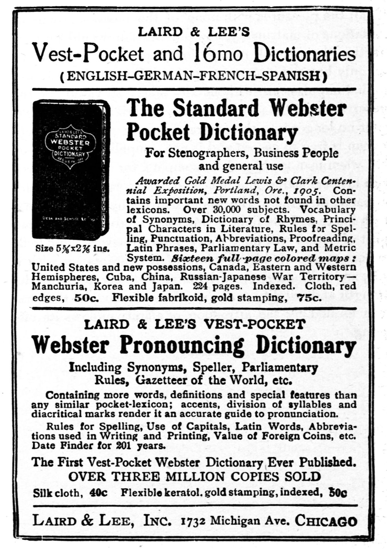 The Standard Webster Pocket Dictionary - Book advertisement